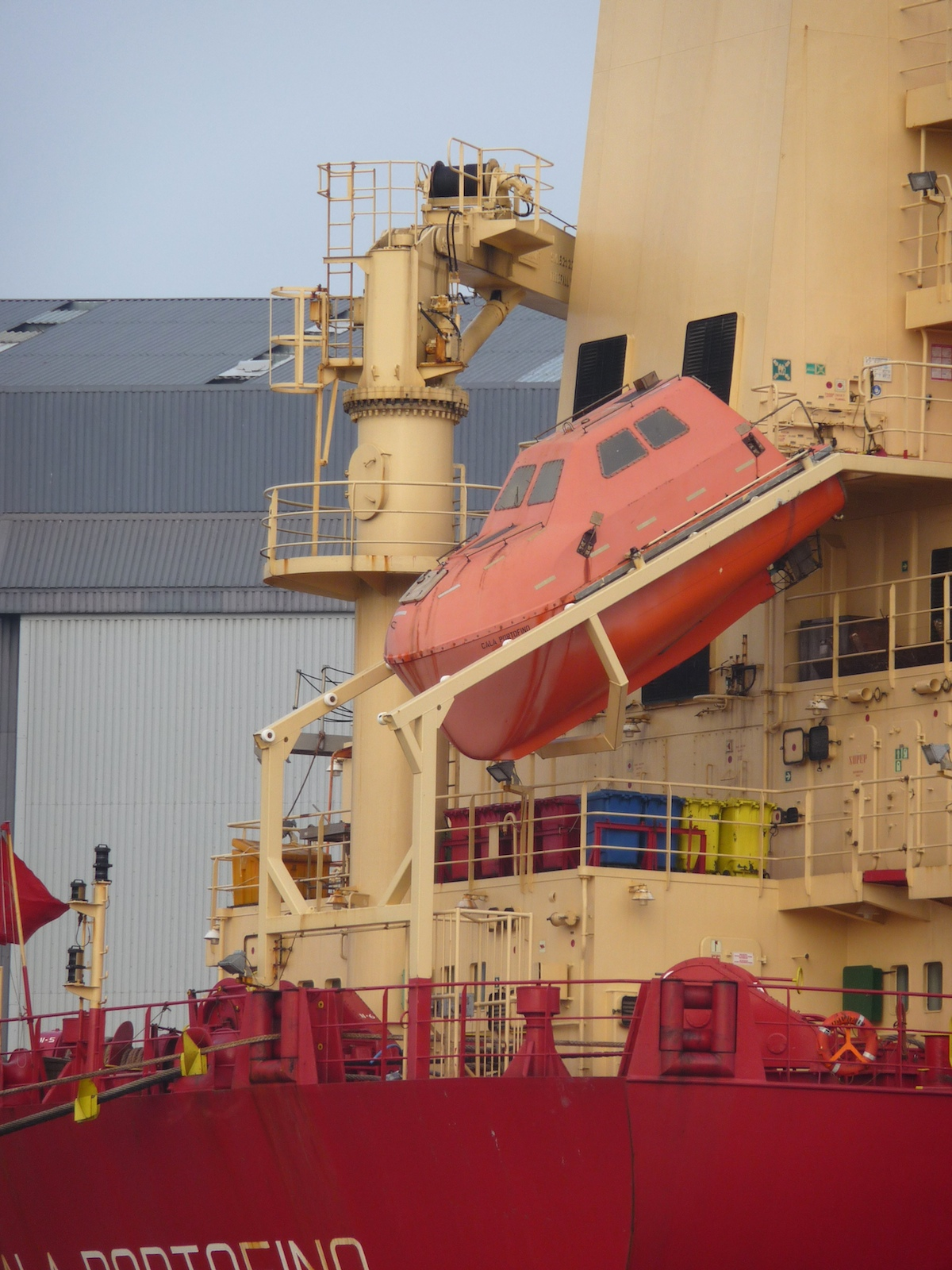 Free Fall Lifeboat - Container Ship Cala Portofino